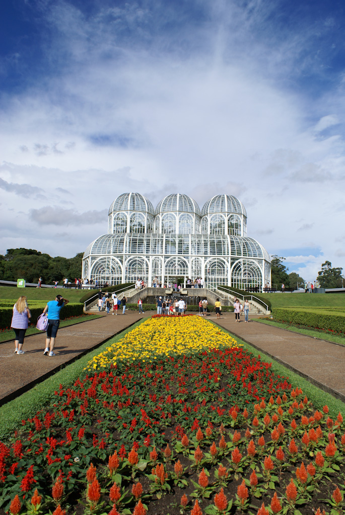 Botanical Garden (Jardim Botânico), Curitiba.